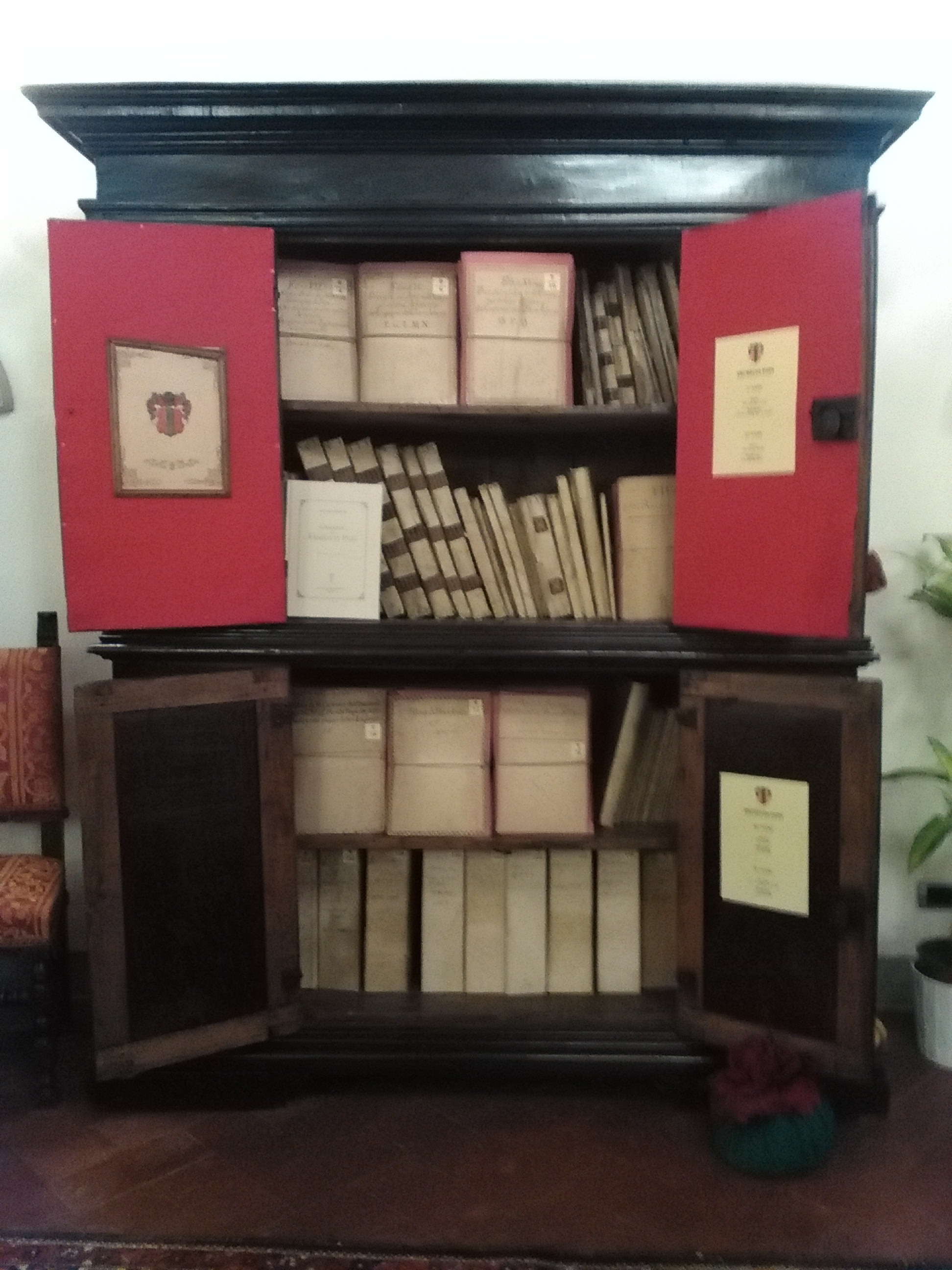 Pepi's family archive